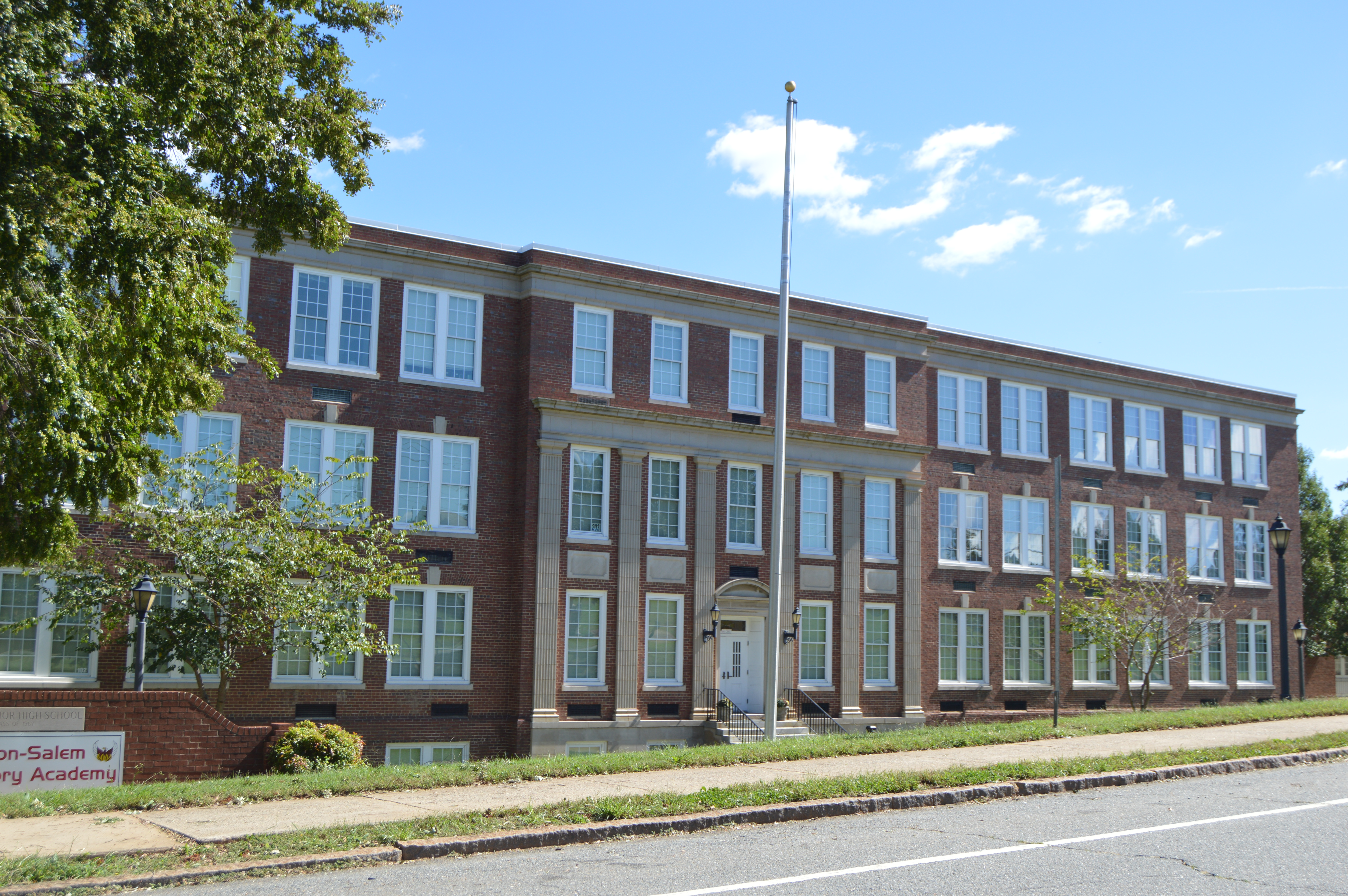 Front of the former Atkins High School, located at 1215 N. Cameron Avenue in Winston-Salem, North Carolina, United States. Built in 1931, it is listed on the National Register of Historic Places.